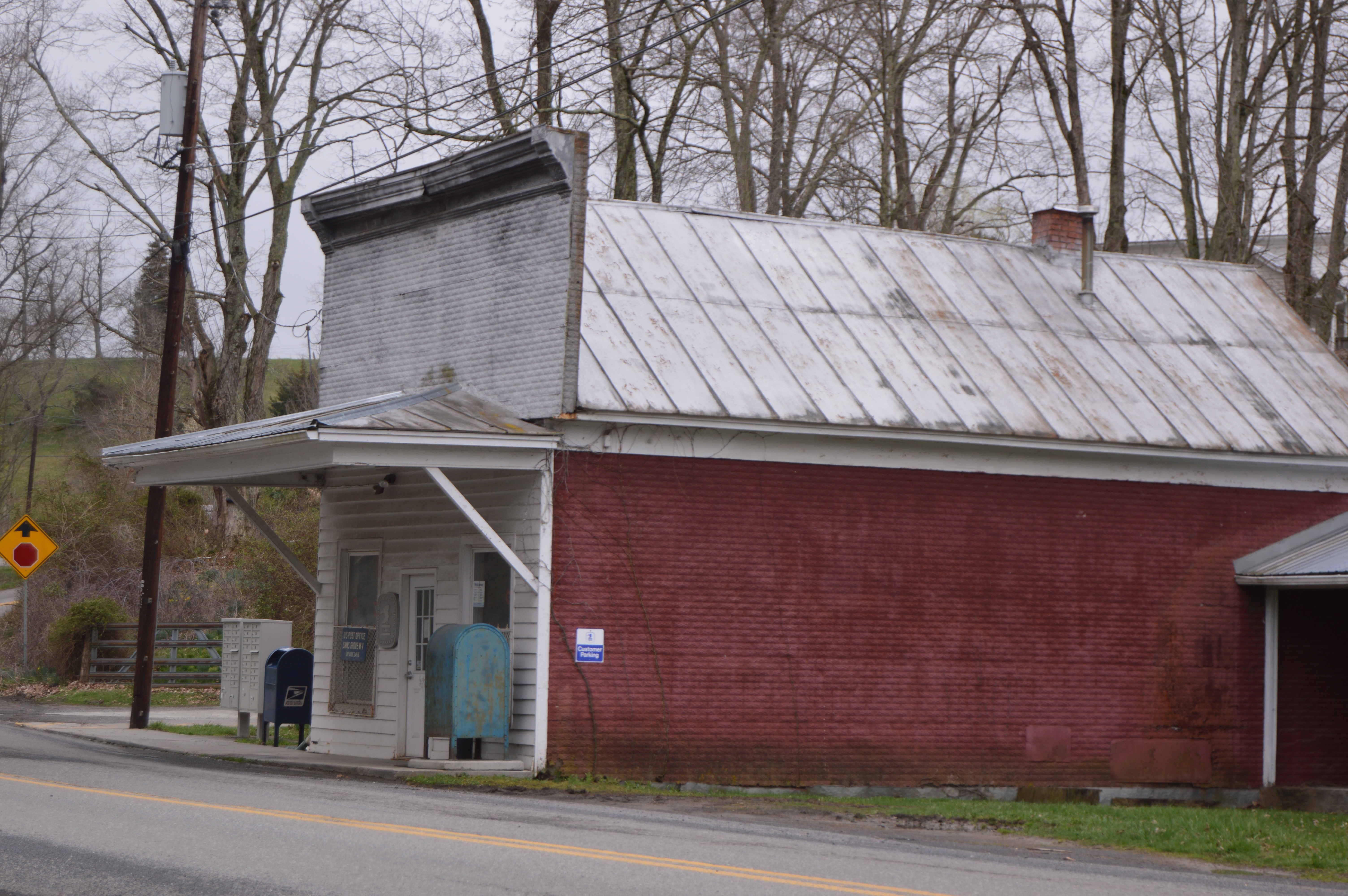 Northern side and front of the Sinks Grove post office, located at 101 Fort Springs Road at Sinks Grove in northern Monroe County, West Virginia, United States.